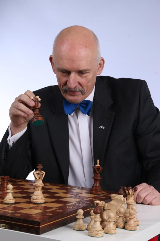 Janusz Korwin-Mikke playing chess